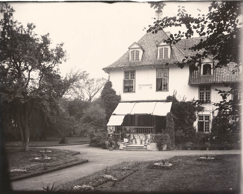 Part of Schackenborg Castle in Moegeltoender in South Jylland.